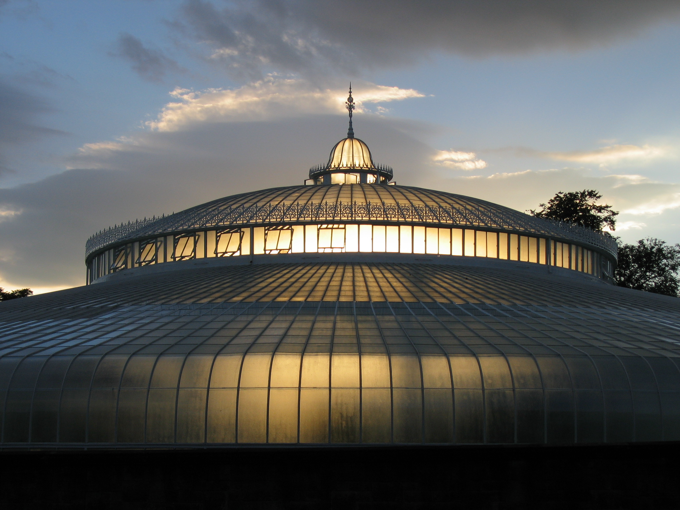 Sunset shining through the restored Kibble Palace in the Botanic Gardens, Glasgow Botanic Gardens